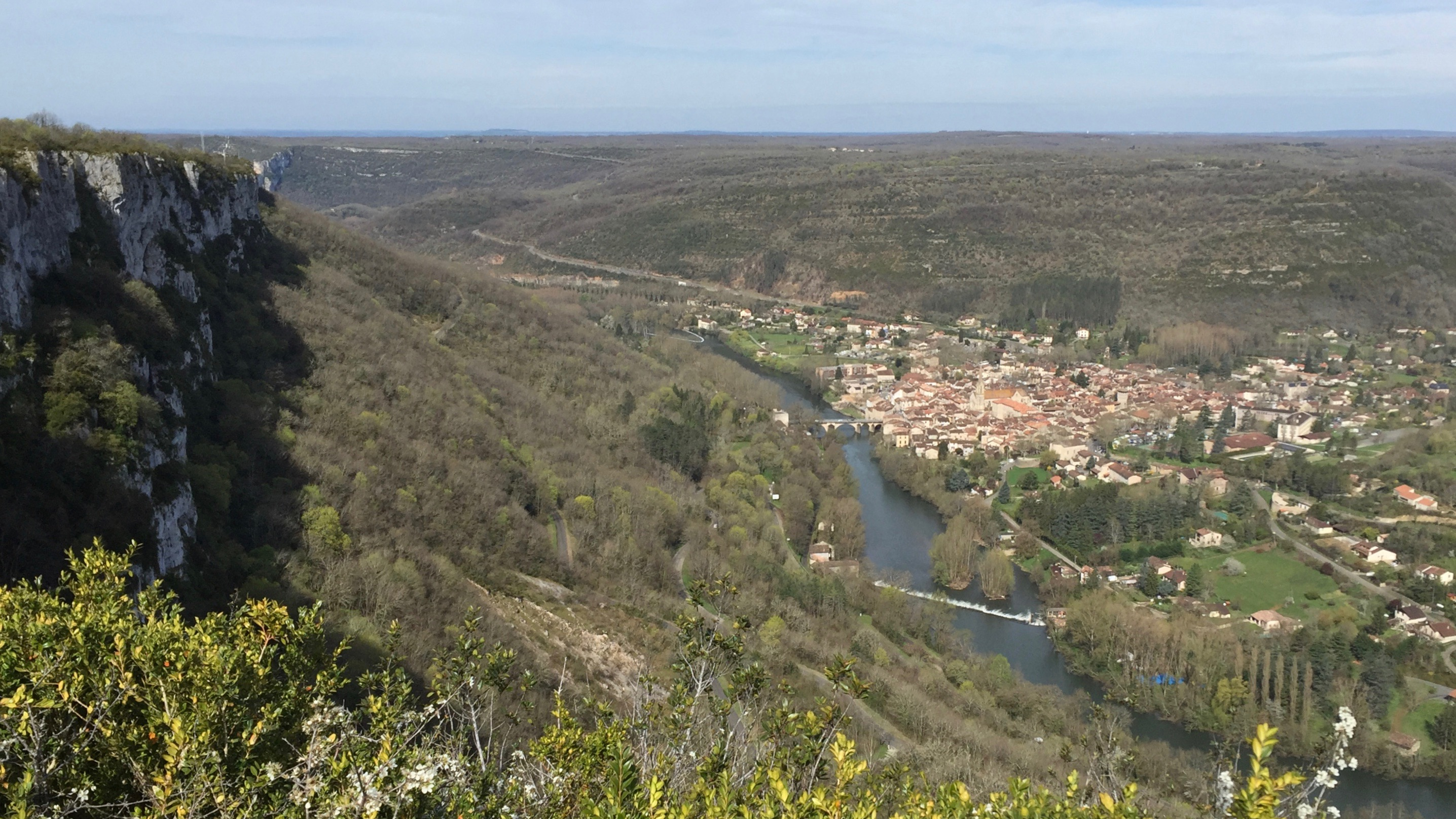 View of of the commune of Saint-Antonin-Nobel-Var in the Aveyron gorge from the Roc d'Anglars